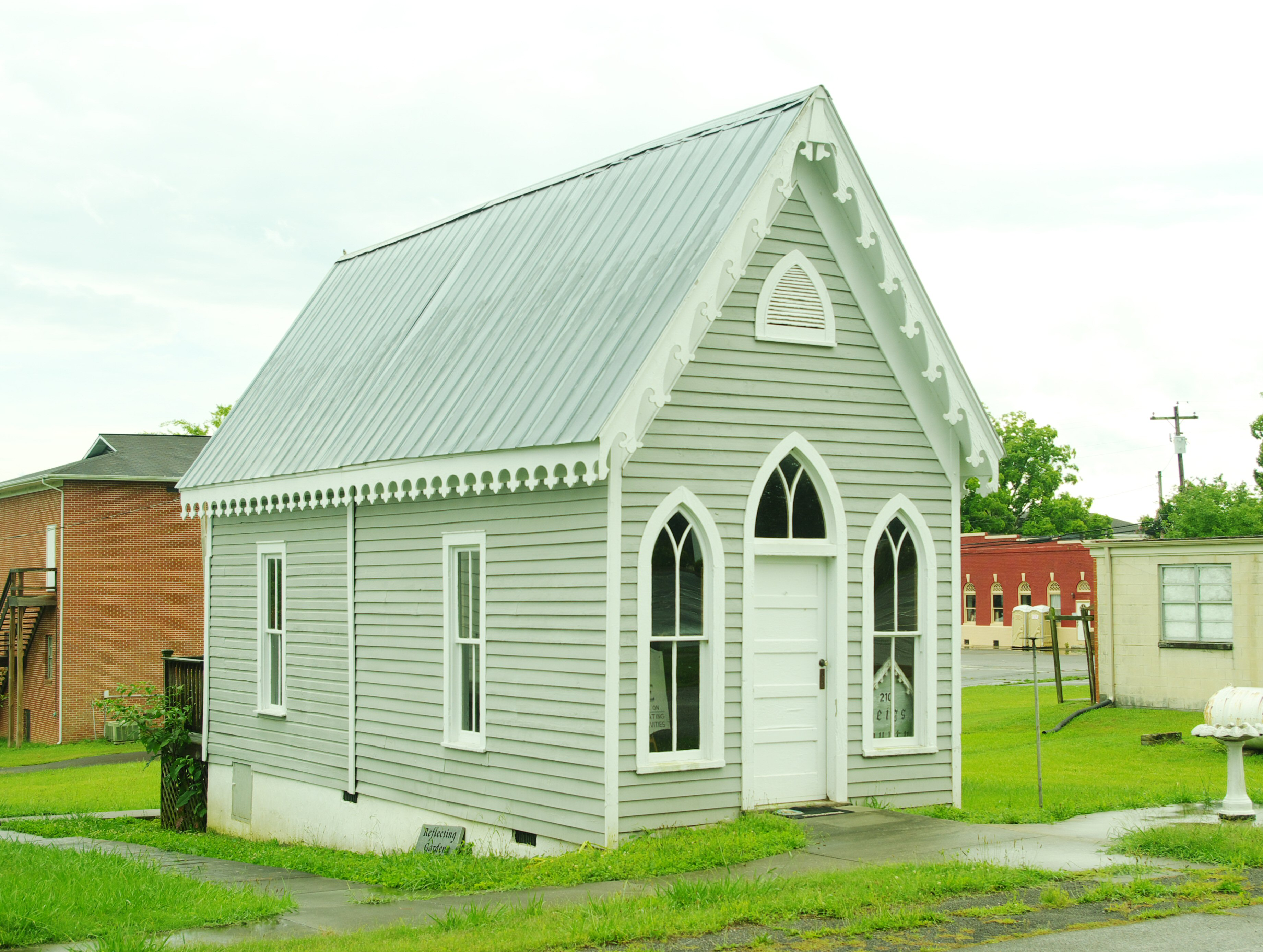 The Robert H. Smith Law Office in Decatur, Tennessee, United States.